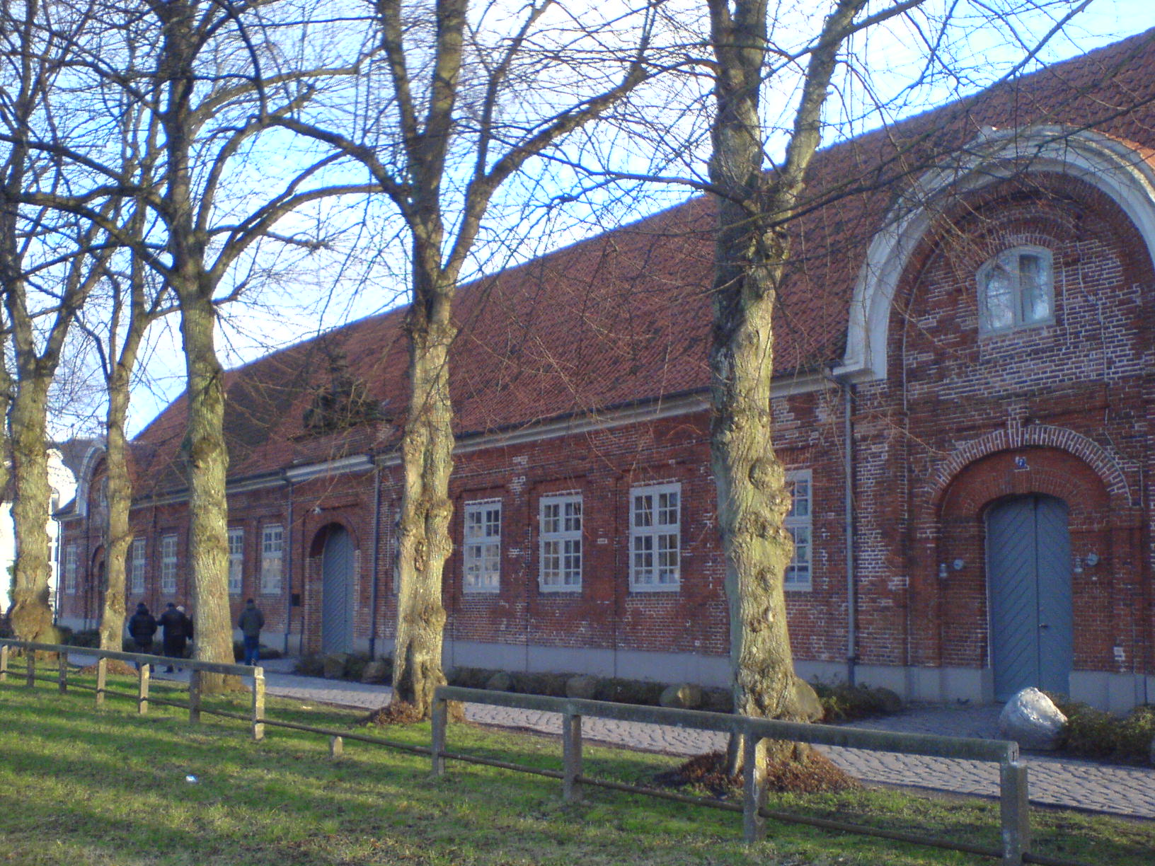 Description=Plöner Schloss, Marstall Source=myself Date=02.2007 Author=PodracerHH 09:21, 5 February 2007 (UTC)